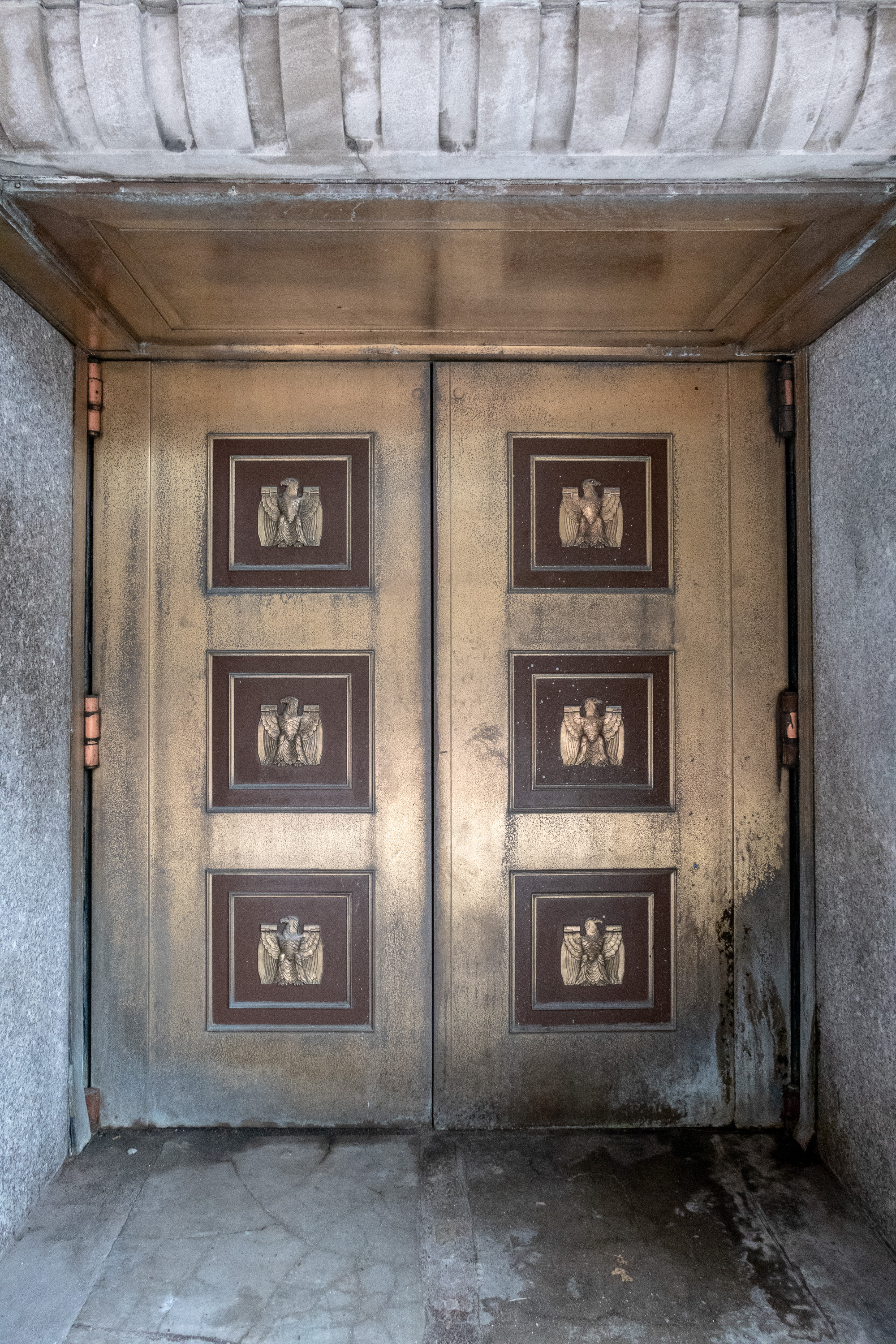 Industrial Trust Building, Providence RI